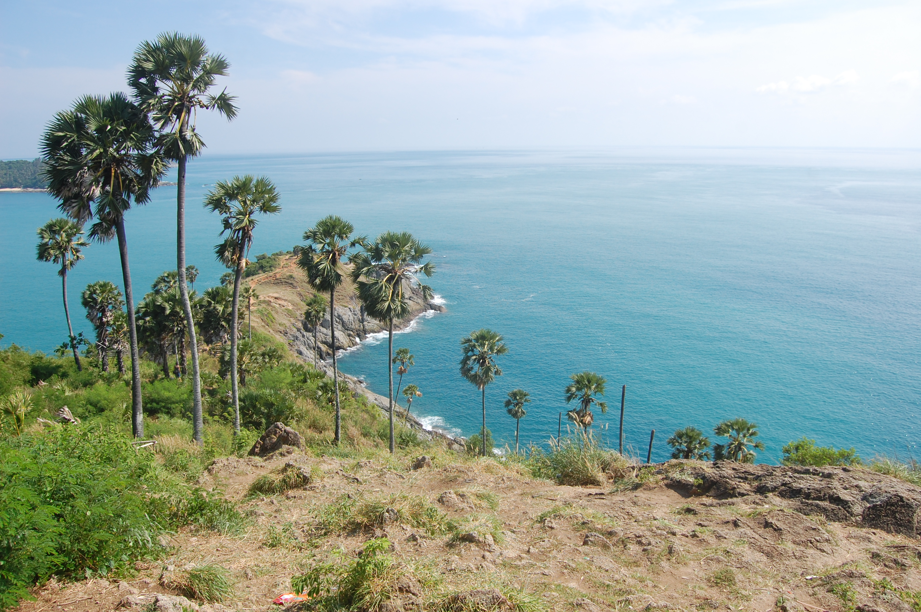 Laem Phromthep in Phuket